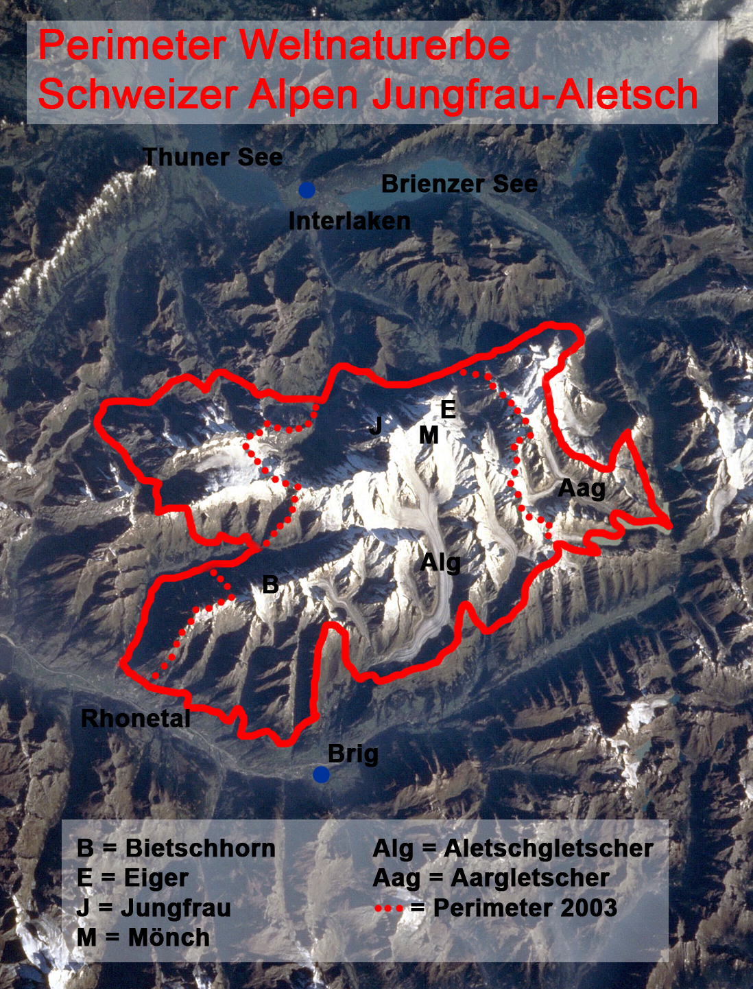 Map of the World Heritage site "Swiss Alps Jungfrau-Aletsch" showing the new boundaries and the original as dotted line. mountains: E=Eiger, J=Jungfrau, M=Mönch, Bietschhorn; Aletsch Glacier (Aletsch-Gletscher); Lake Brienz (Brienzer See); the Rhône valley (Rhonetal) and the cities of Interlaken and Brig.